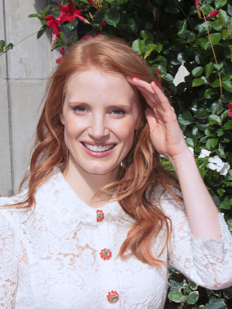 Jessica Chastain at the Toronto International Film Festival 2013